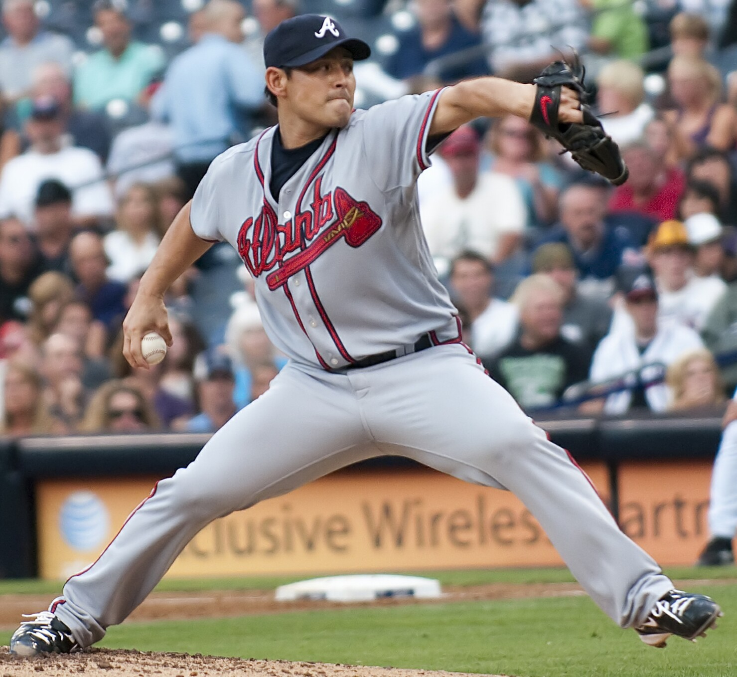 Kenshin Kawakami